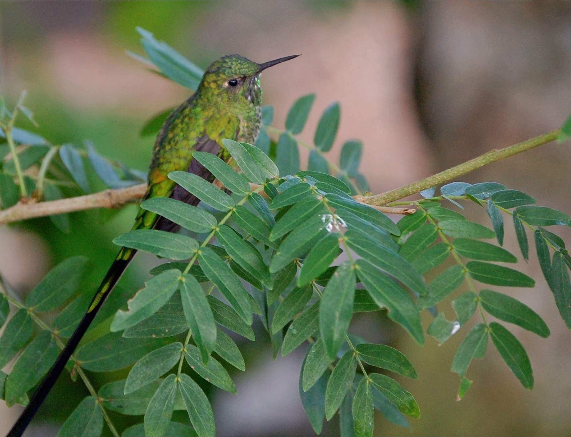 Green-tailed Trainbearer (Lesbia nuna) at Butterfly World Coconut Creek, Florida